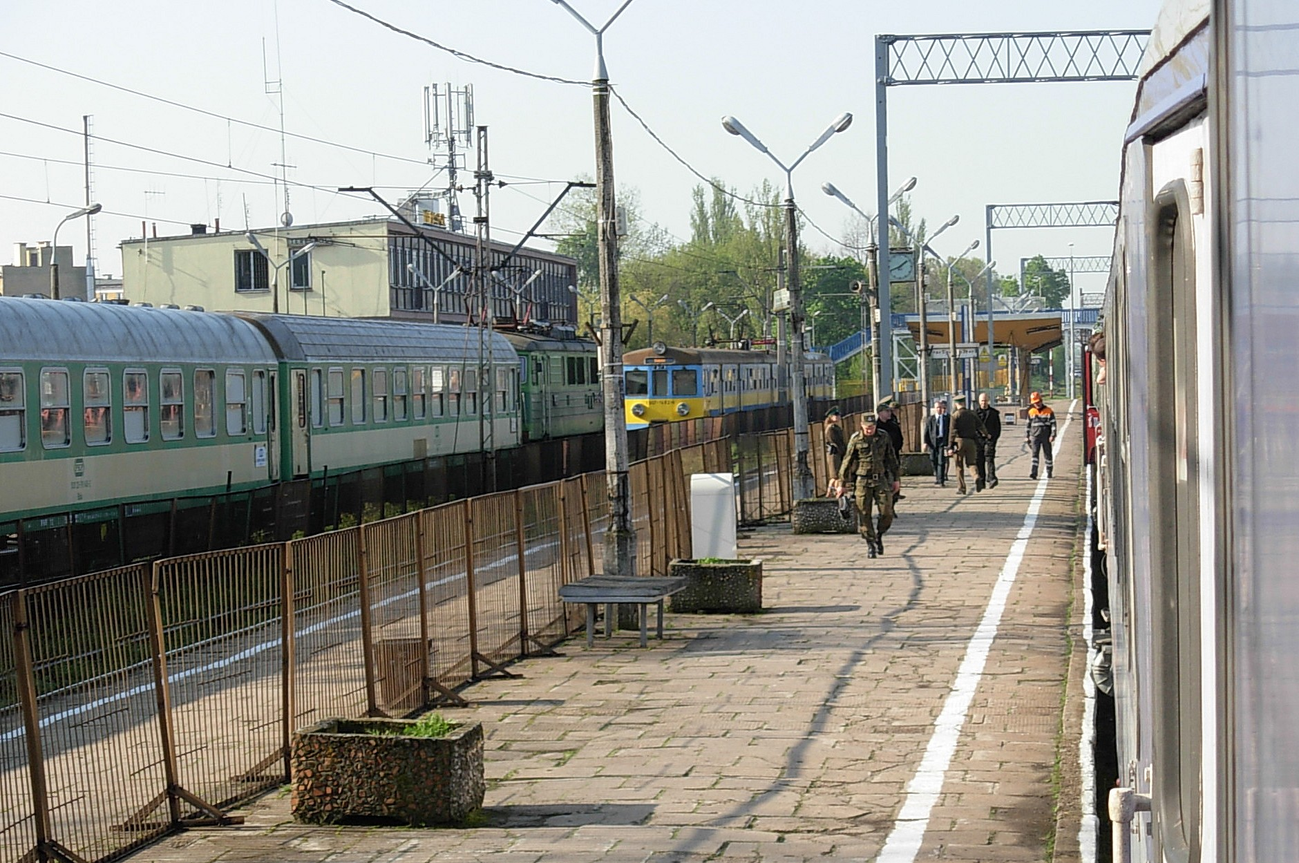 Polish border guard control of the Polonez train from Moscow on the platform of Terespol station.